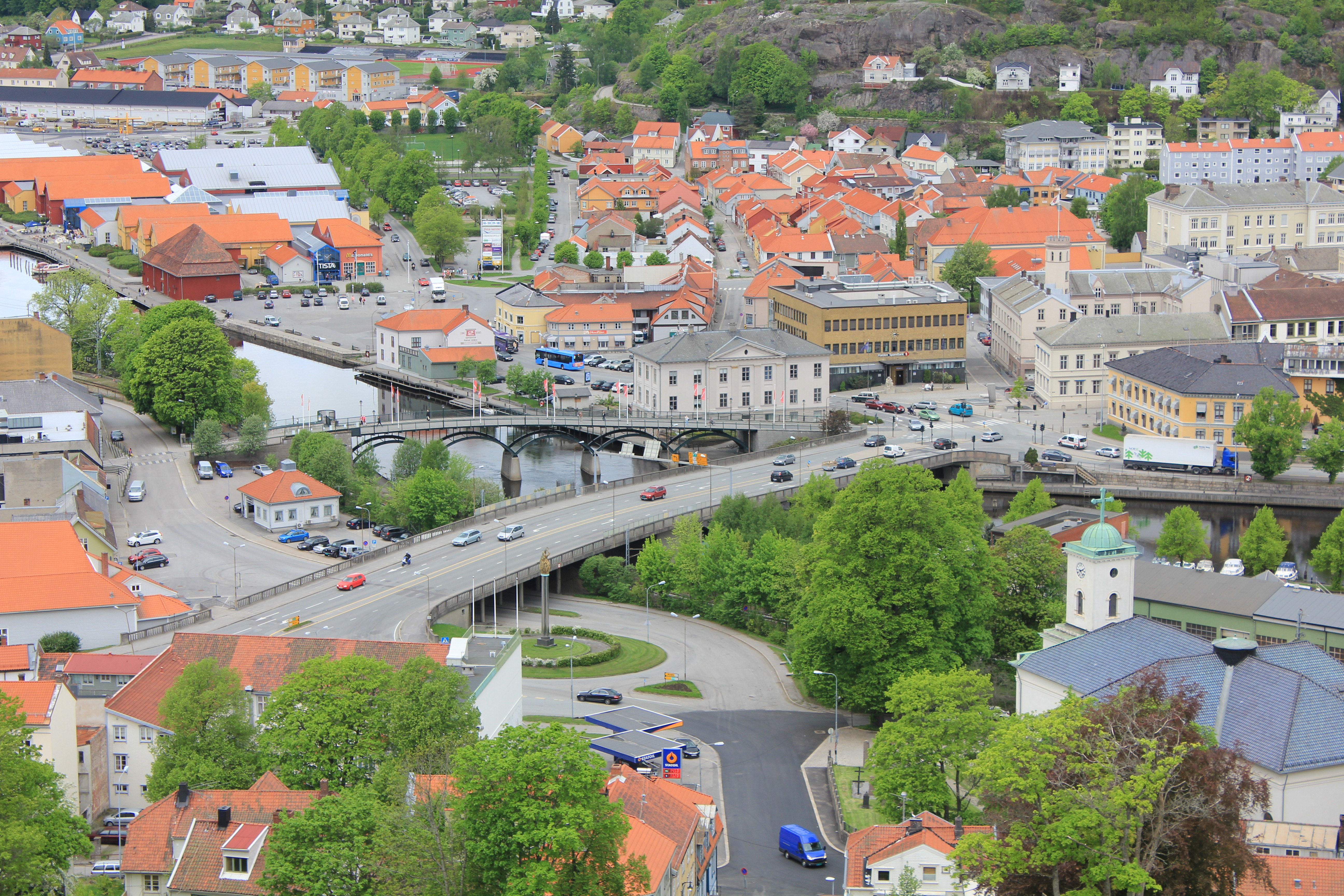 The central town of Halden, Norway.